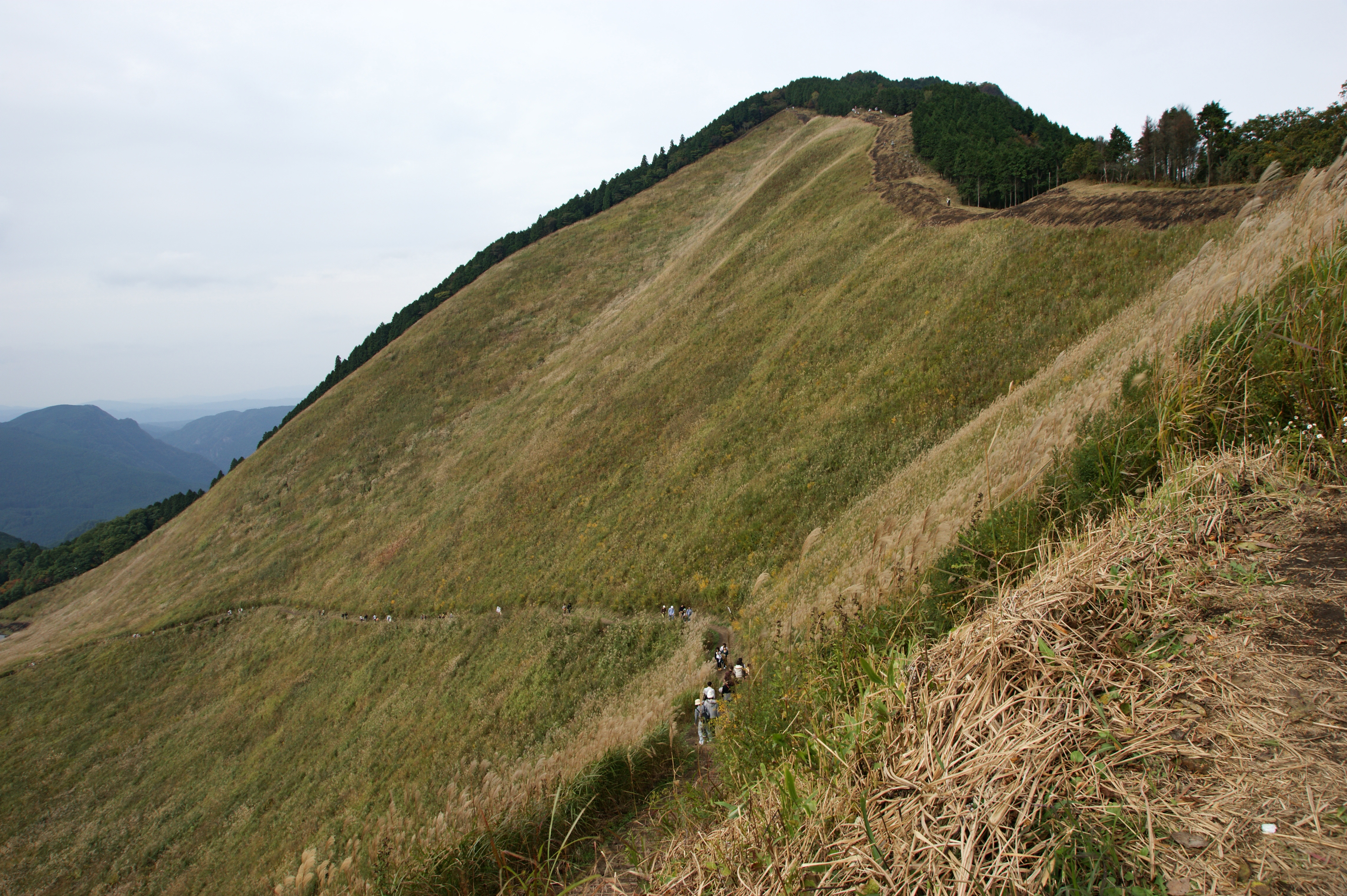 Mount Kuroso in Soni highlands, Soni, Nara prefecture, Japan